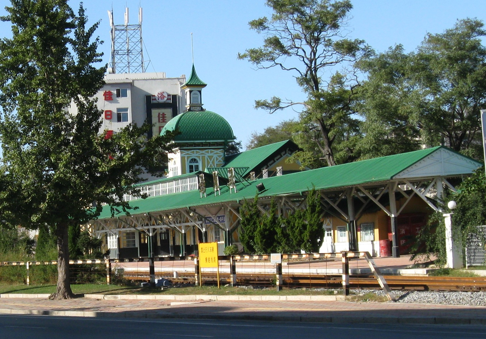 Lüshun railway station, built during the years of russian control of the city